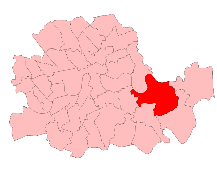 A map of Greenwich constituency within the London County Council area, as it existed from 1950 to 1974.